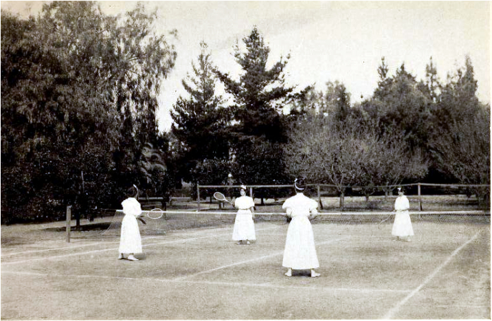 US tennis champion May Sutton, playing a doubles match with her sisters, at her home at Pasadena, CA, USA.